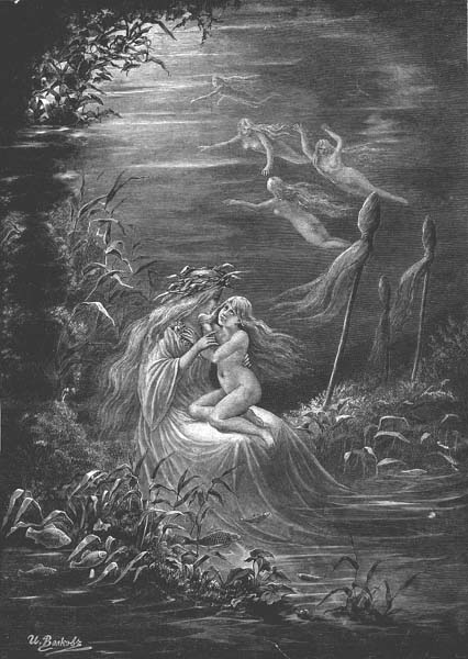 Alexander Pushkin's Rusalka. Dnieper bottom. Rusalka and her daughter. Original Art by I. Volkov, engraving.(Originally from NIVA magazine, page 87)